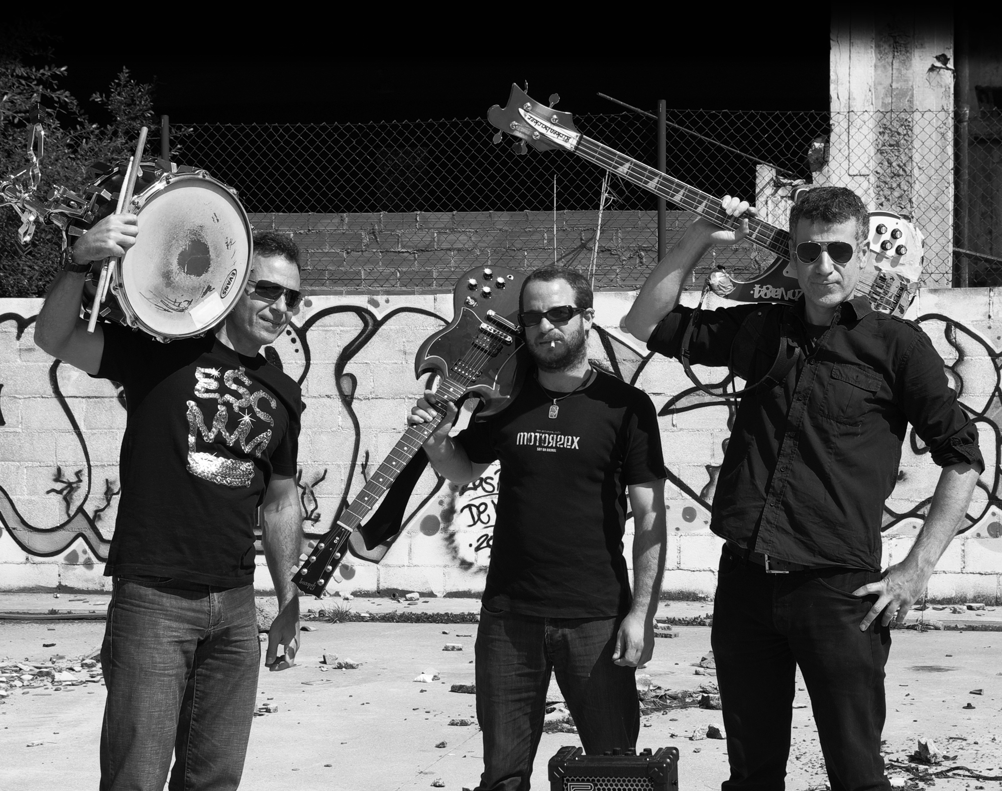 Motorsex trio band members